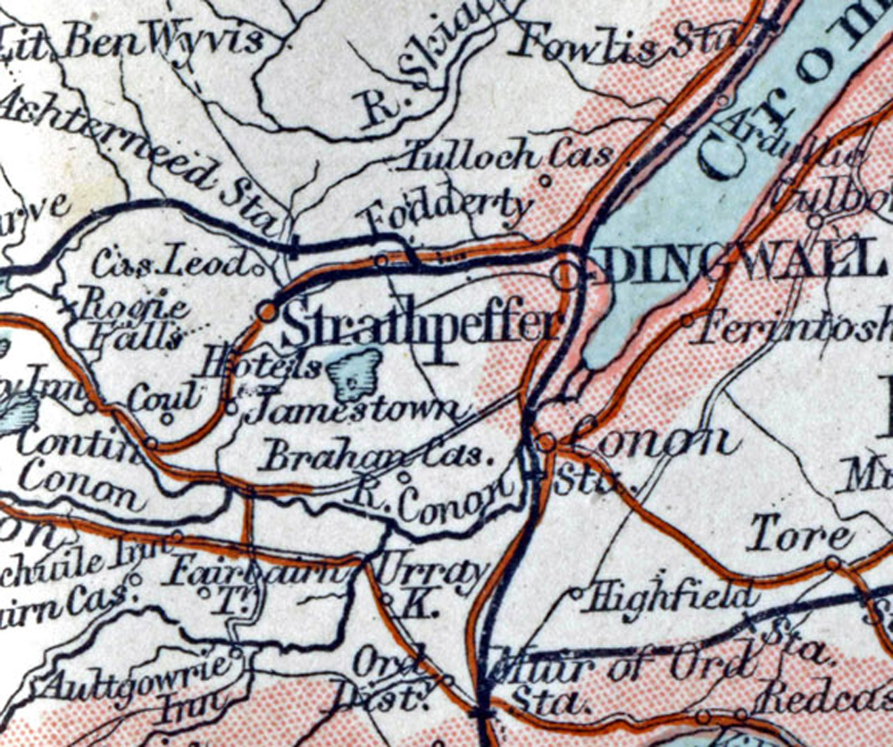 The Dingwall and Strathpeffer area of Ross & Cromarty